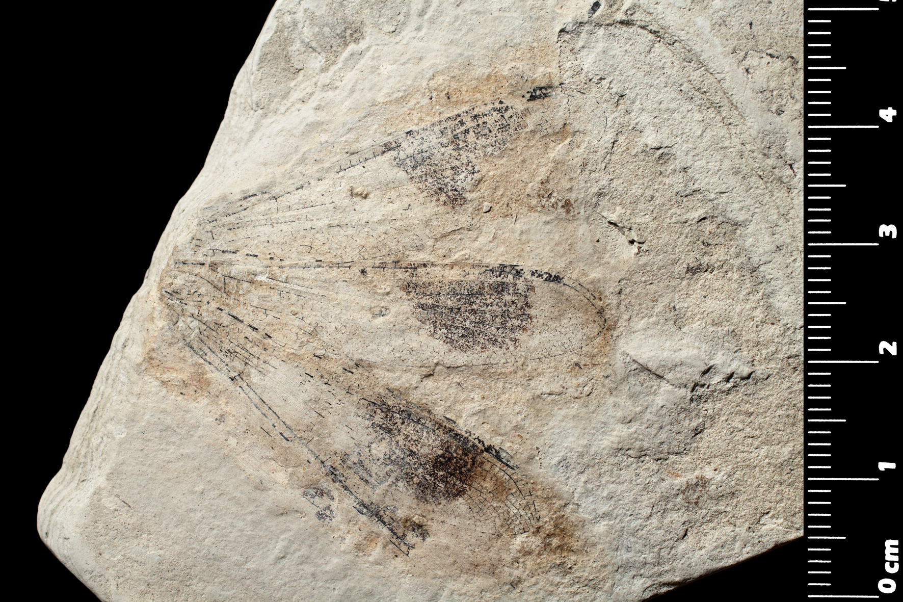 The Paraoligolestes miocenicus holotype with direct lighting. Turolian, Miocene; Montagne d'Andance, Saint-Bauzile, Privas, France Muséum national d'Histoire naturelle specimen MNHN.F.R10382